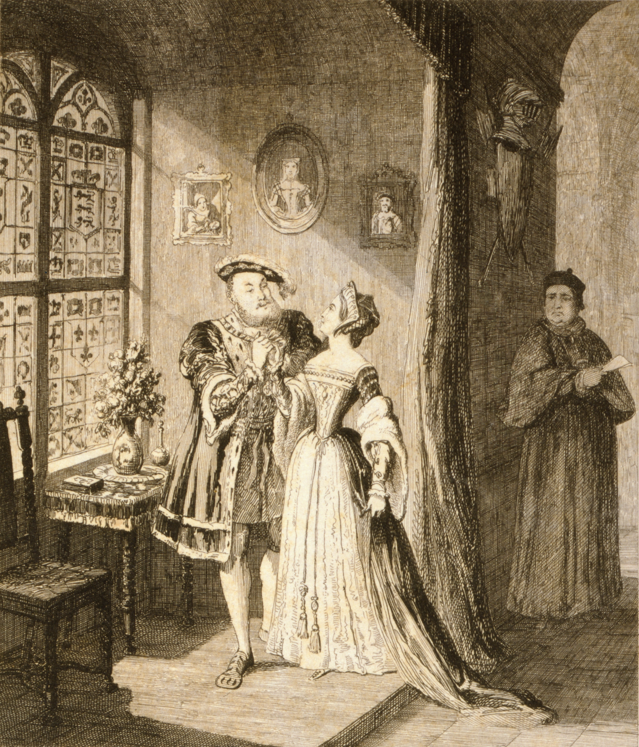 "Henry's reconciliation with Anne Boleyn", etching